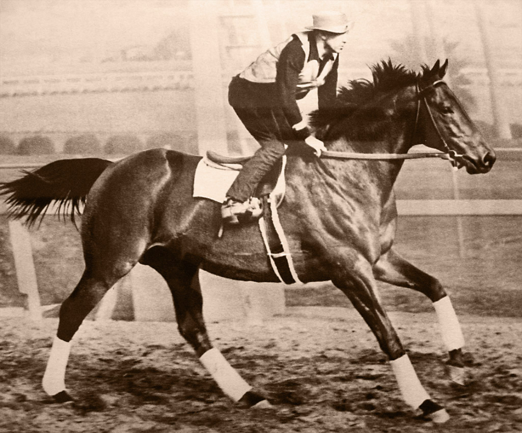 Seabiscuit on workout with George Wolf.